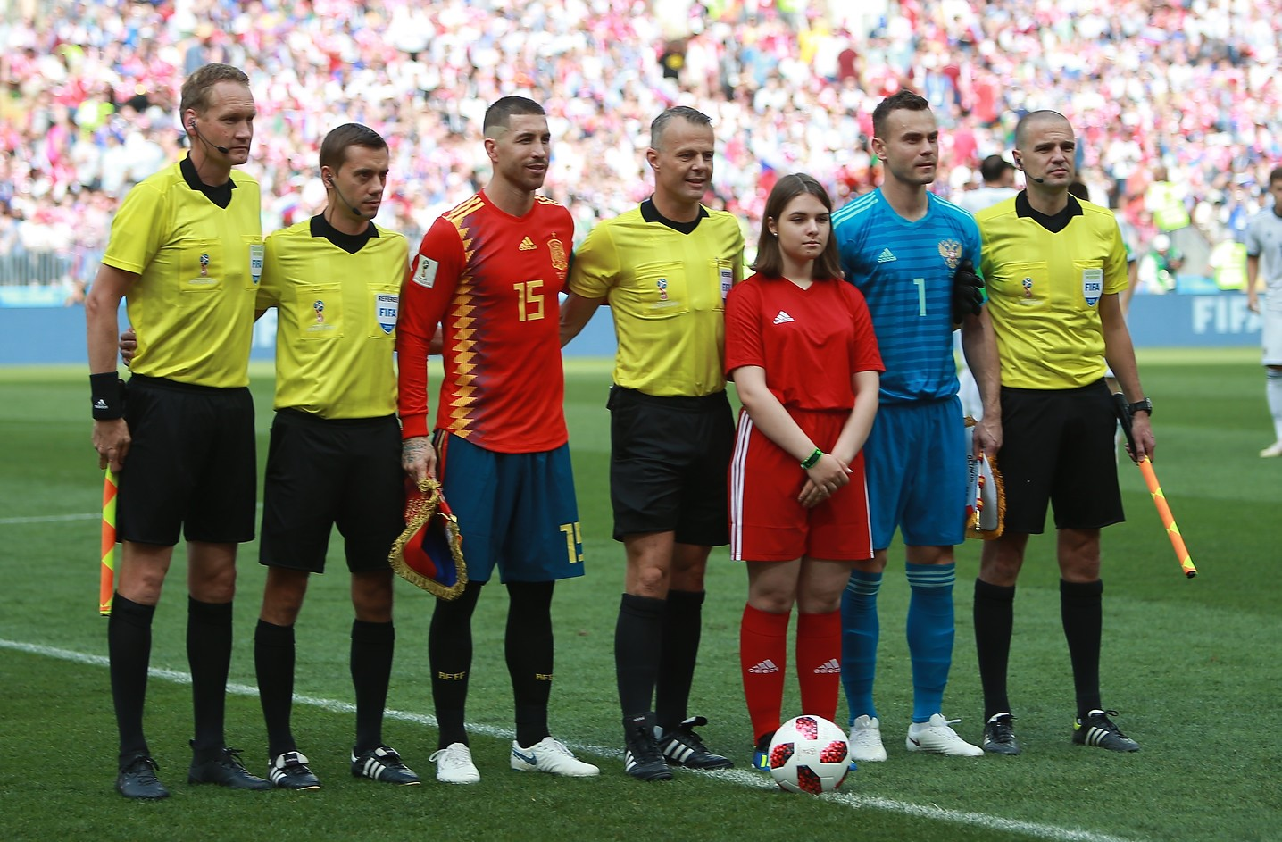 Igor Akinfeev, Björn Kuipers, Sergio Ramos